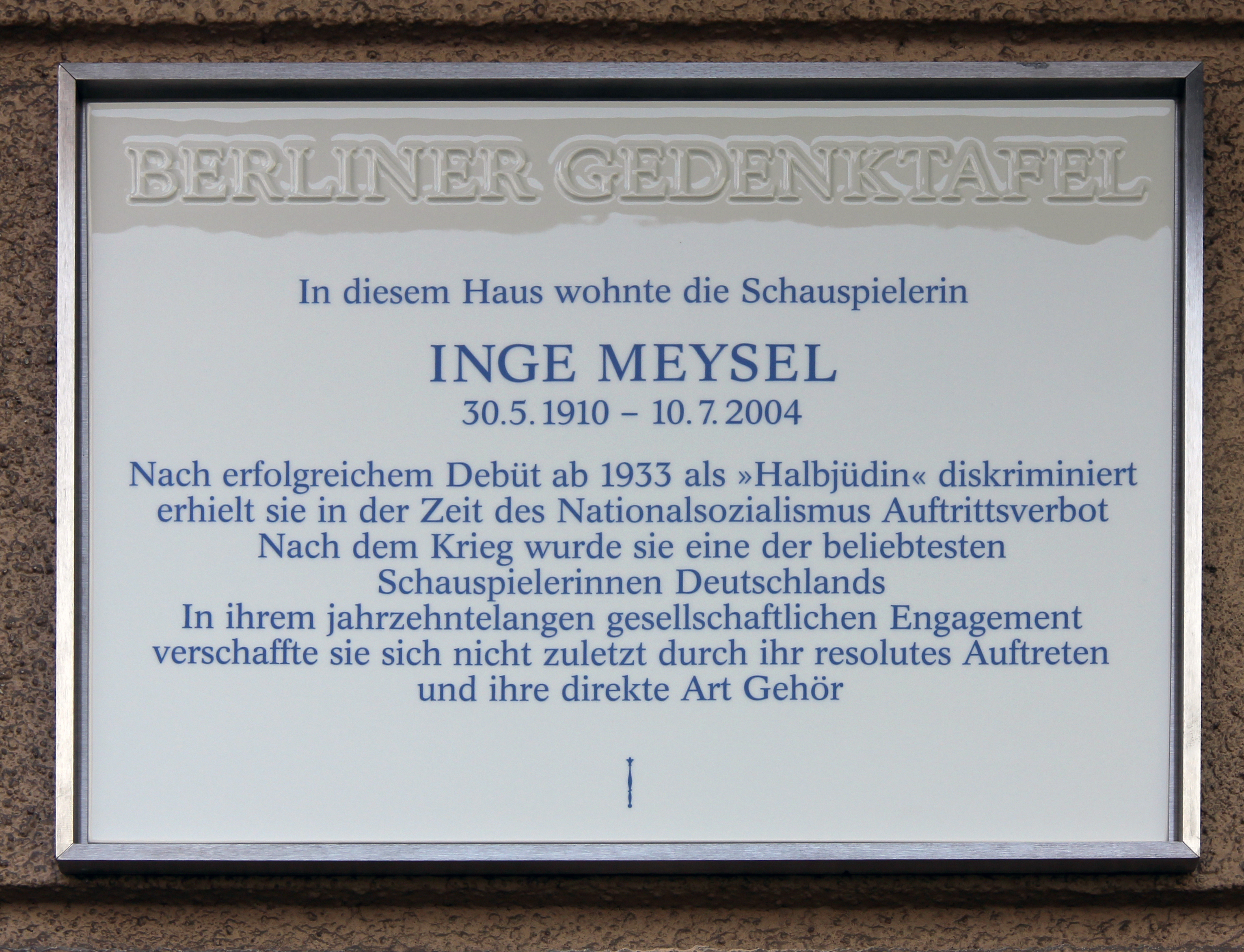 Berlin memorial plaque, Inge Meysel, Heylstraße 29, Berlin-Schöneberg, Germany